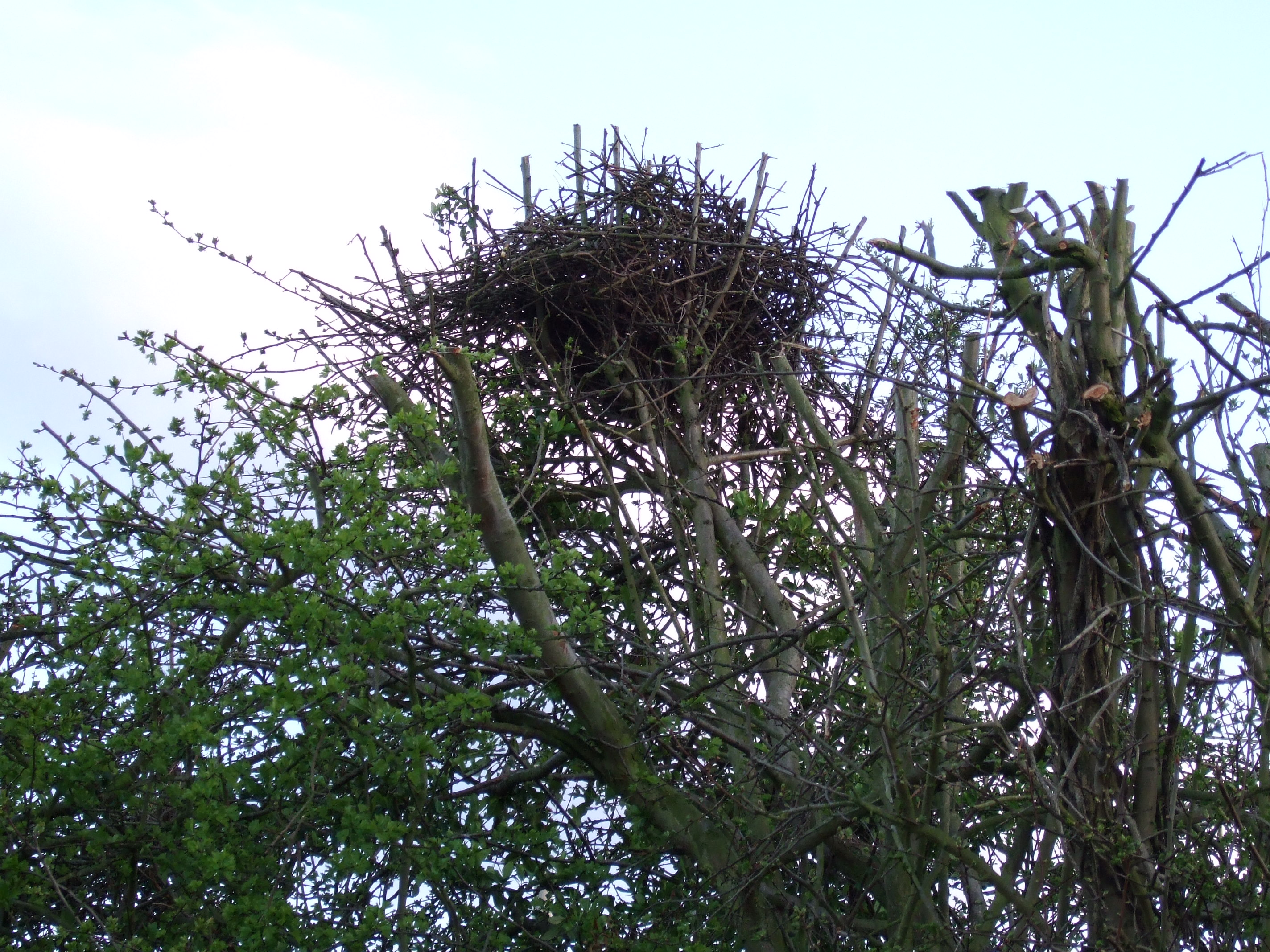 Grey Squirrel Drey